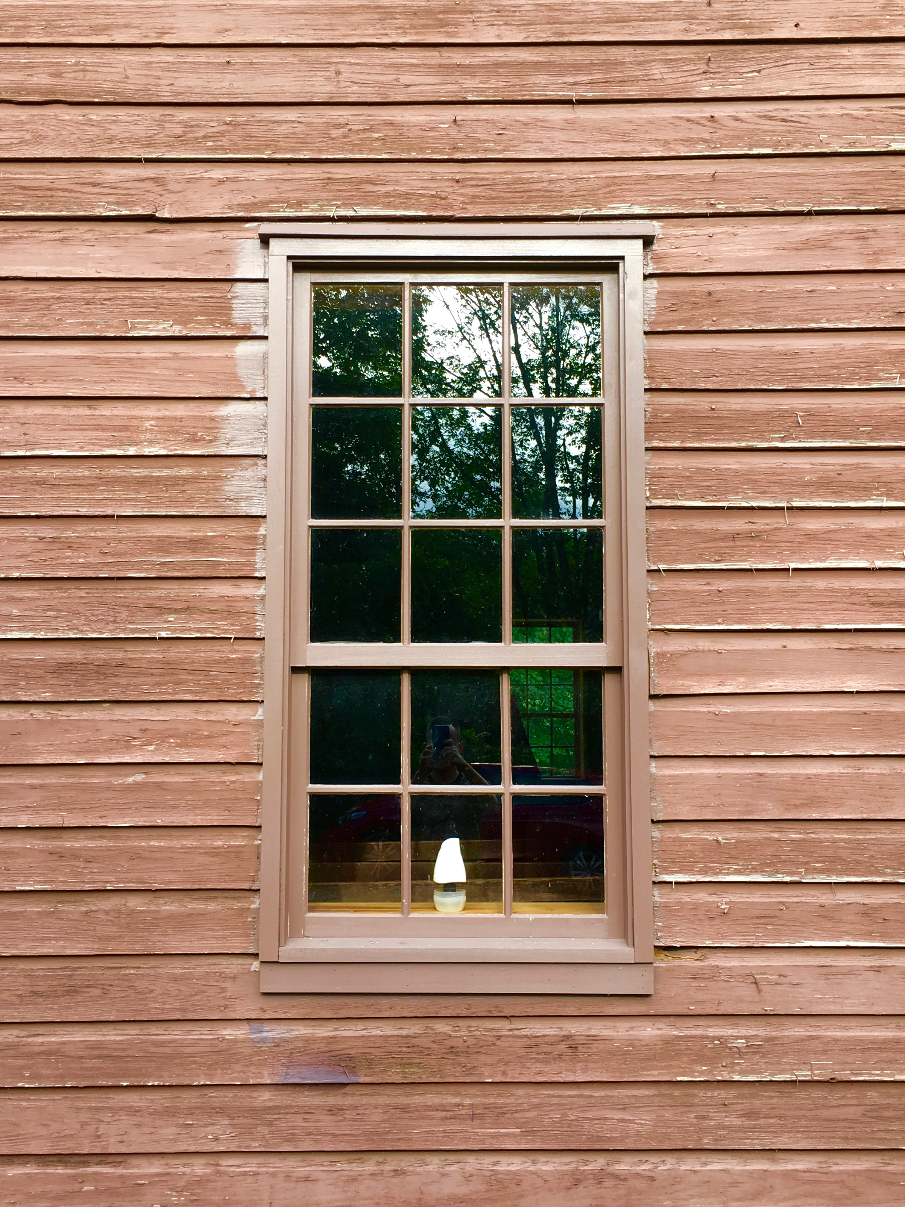 Old Pine Church is a mid-19th-century church along Old Pine Church Road (County Route 220/15), south of Purgitsville, West Virginia, United States. Photographed by Justin A. Wilcox of Washington, D.C. on July 2, 2016.